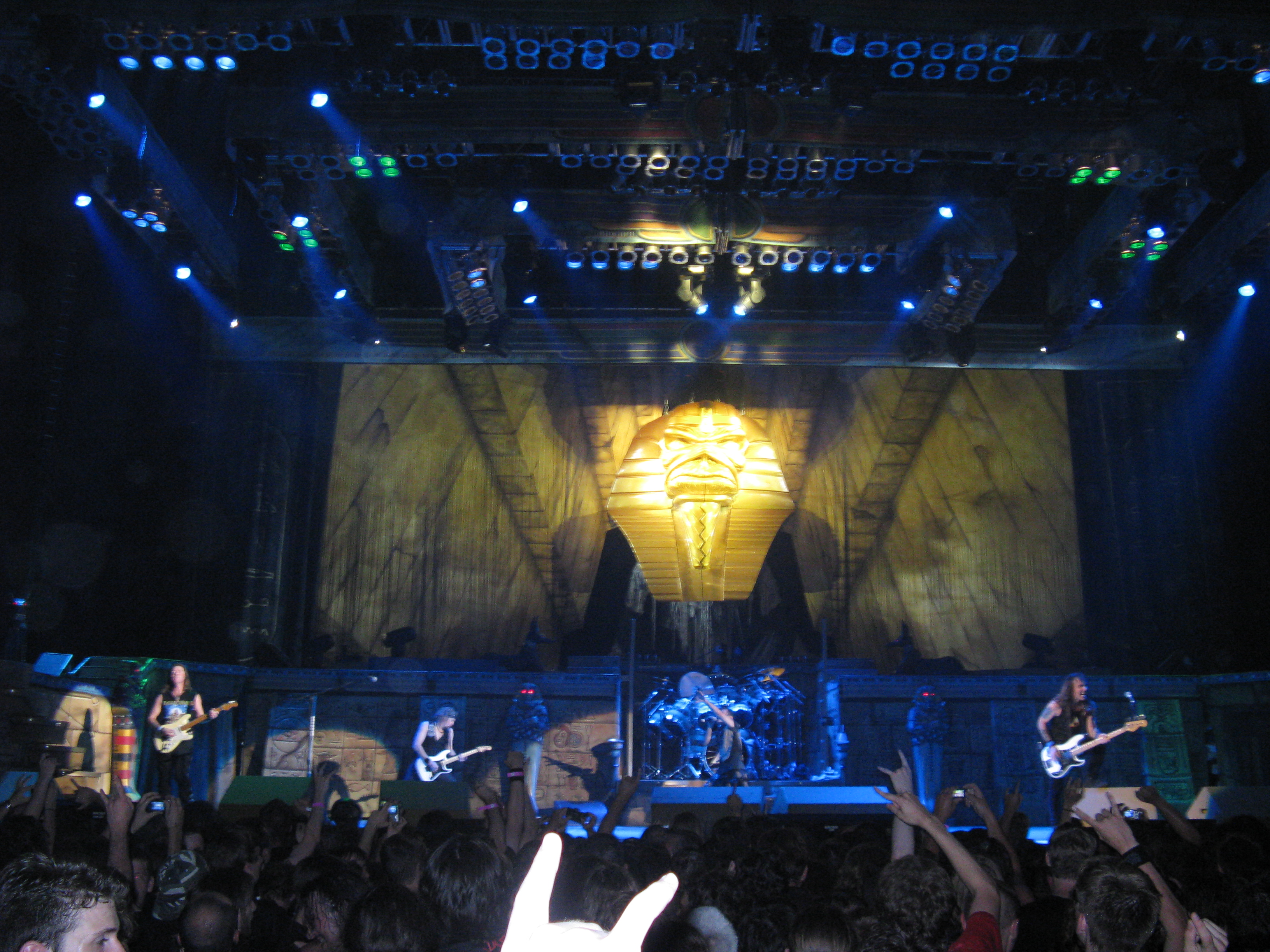 Iron Maiden in Paris (Bercy Arena) on July 1st 2008